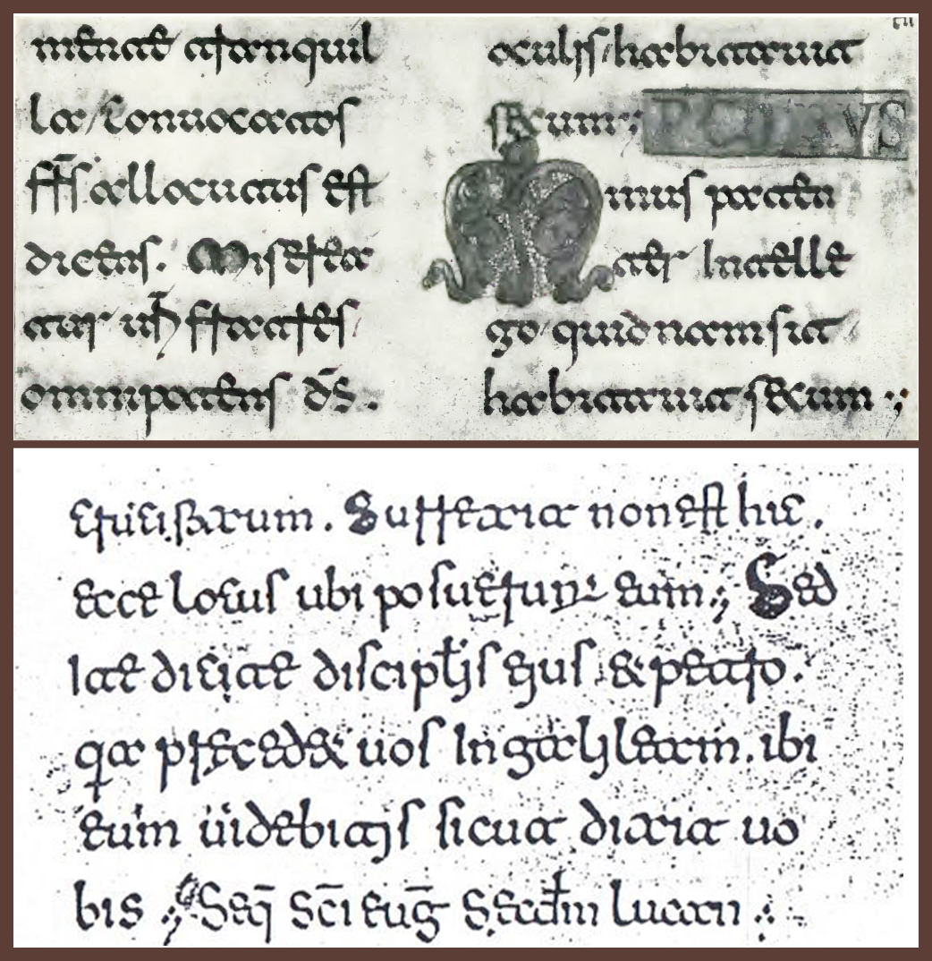 Beneventan script (11th c.): Monte Cassino and Bari types.